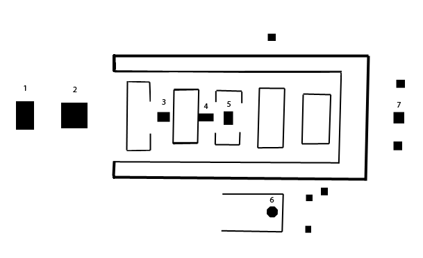 Plan schema of But Thap Temple